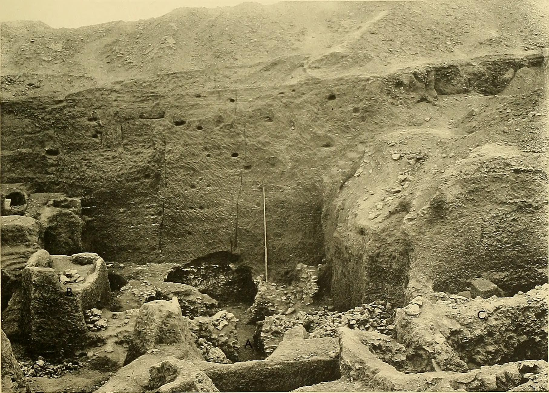 Title: Ur excavations Year: 1900 (1900s) Authors: Joint Expedition of the British Museum and of the Museum of the University of Pennsylvania to Mesopotamia Hall, H. R. (Harry Reginald), 1873-1930, ed Woolley, Leonard, Sir, 1880-1960 Legrain, Leon, 1878- ed Subjects: Publisher: (n.p.) Pub. for the Trustees of the Two Museums by the aid of a grant from the Carnegie Corporation of New York Text Appearing Before Image: a. GENERAL VIEW: EARLY STAGES OF THE EXCAVATION Text Appearing After Image: b. VIEW SHOWING A, THE ROYAL TOMB PG/779, B, THE SITE OF THE GRAVE OF MES-KALAM-DUG, PG/755, C, THE ROYAL TOMB PG/777V. p. 4 PLATE 6